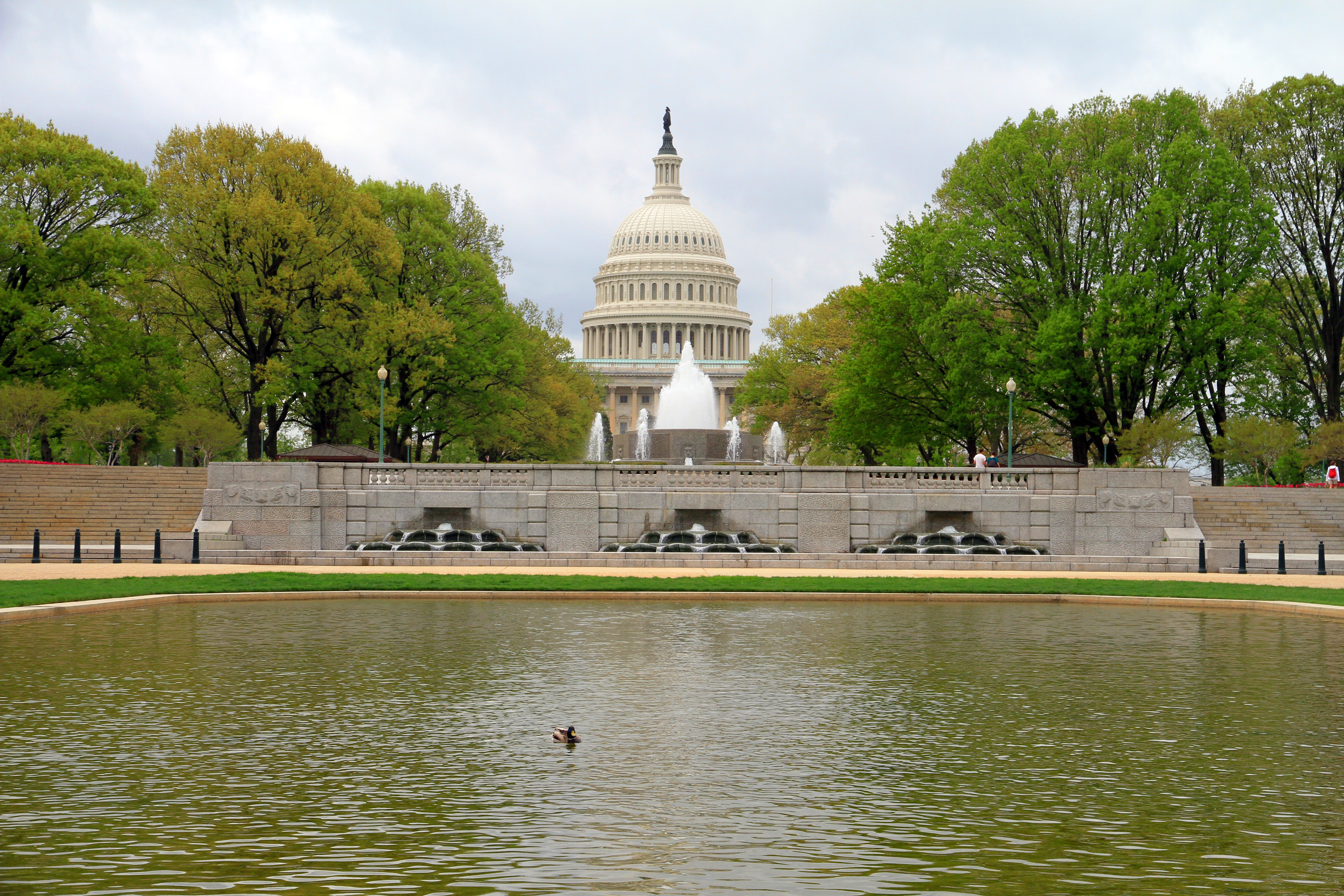 Capitol Plaza